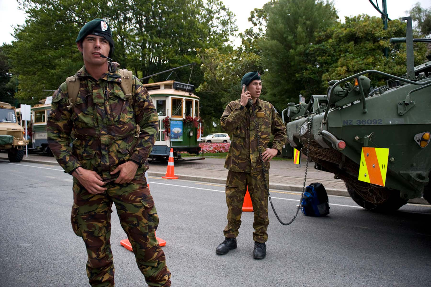 NZ Army and Singapore Armed Forces personnel provide support to the Christchurch Earthquake Operation by providing cordons around the city's CBD. 20110224_WN_S1015650_0004